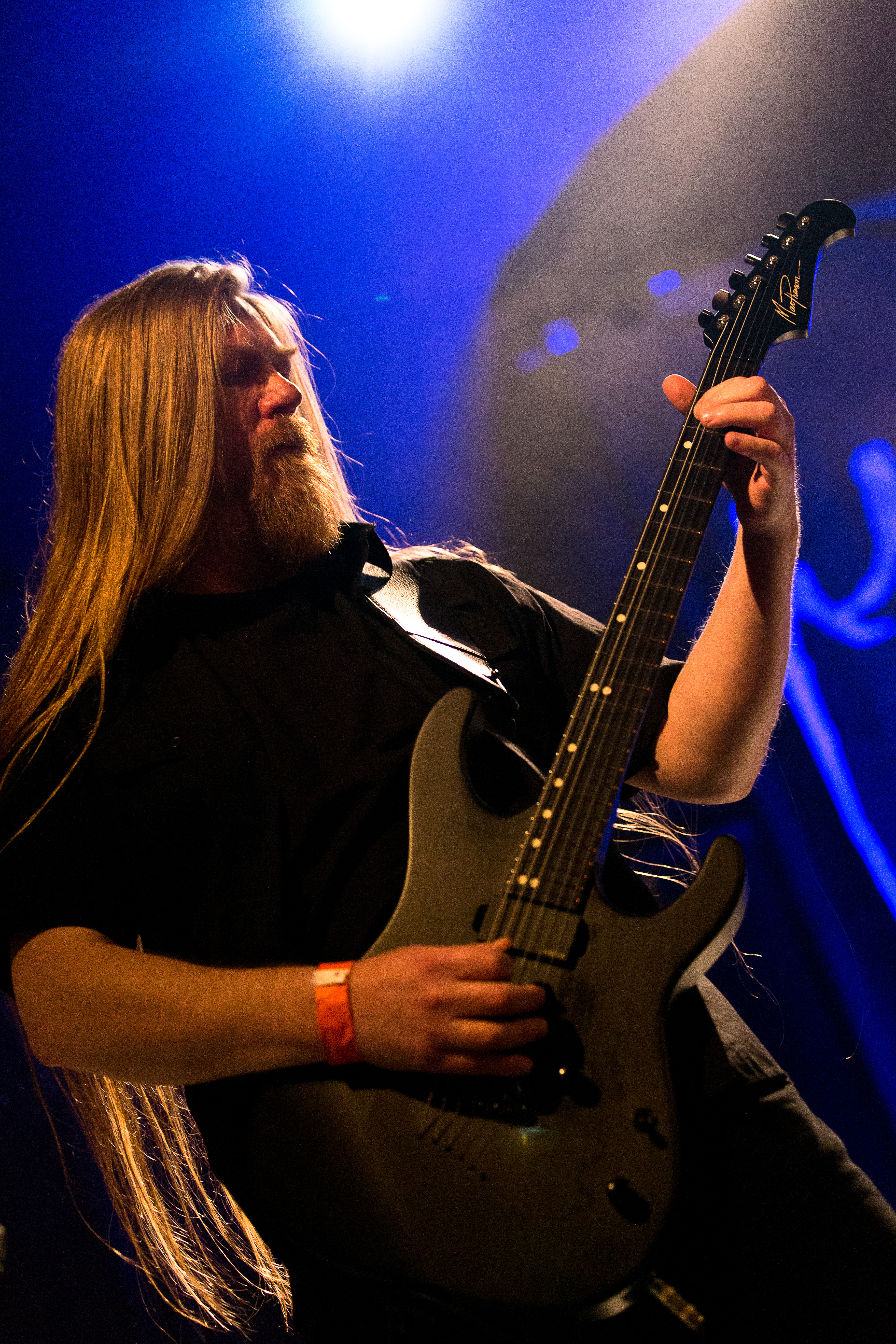 The British doom metal band My Dying Bride at the 25. Wave-Gotik-Treffen 2016 in Leipzig/Germany.